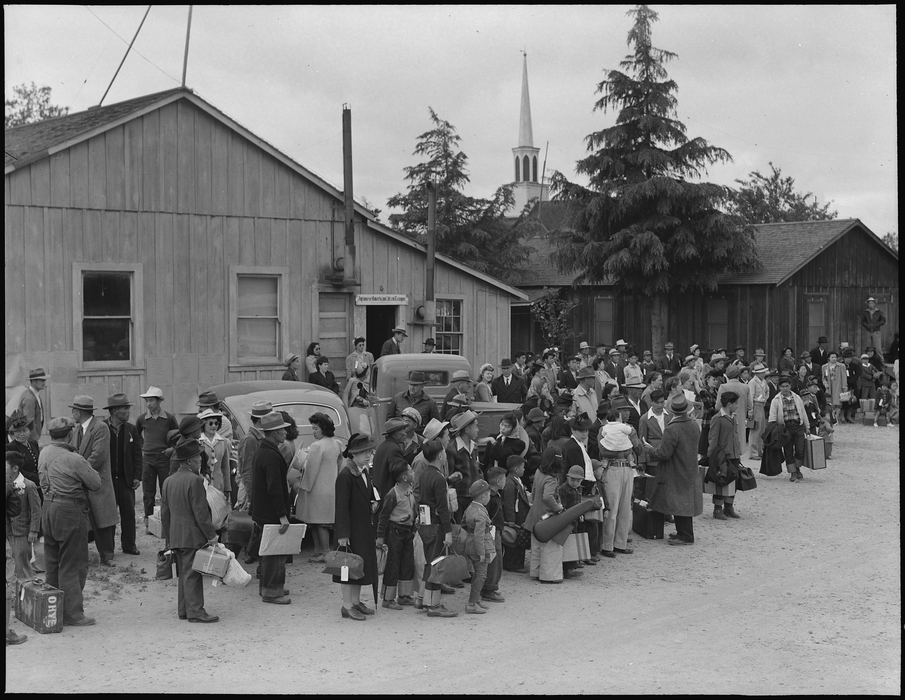 Scope and content: The full caption for this photograph reads: Centerville, California. Members of farm families await evacuation bus. Farmers and other evacuees of Japanese ancestry will be given opportunities to follow their callings at War Relocation Authority centers where they will spend the duration.